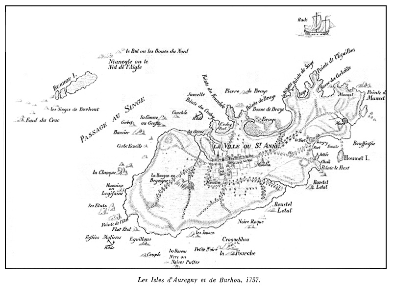 Topo-Hydrographical Map of the Islands of Alderney and Burhou, Channel Islands, British Isles